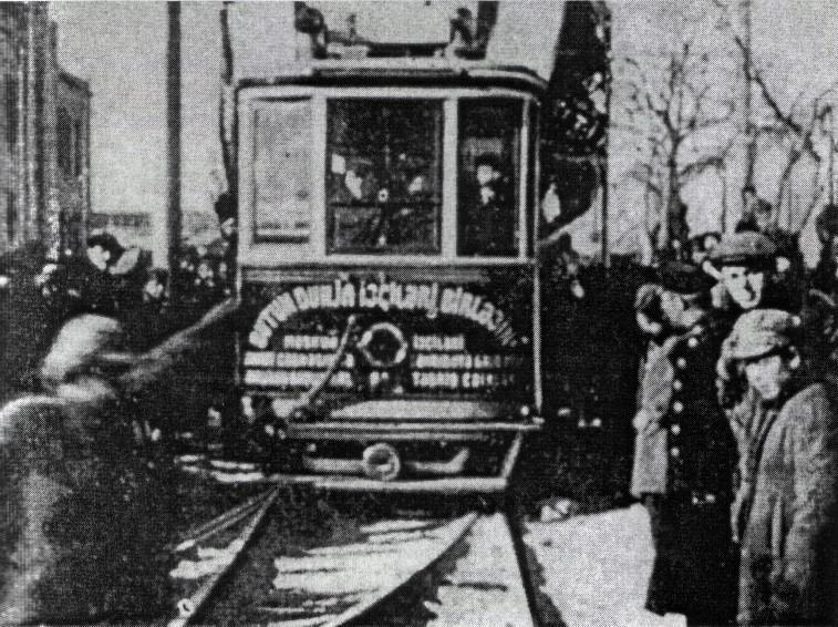 First tram in Baku